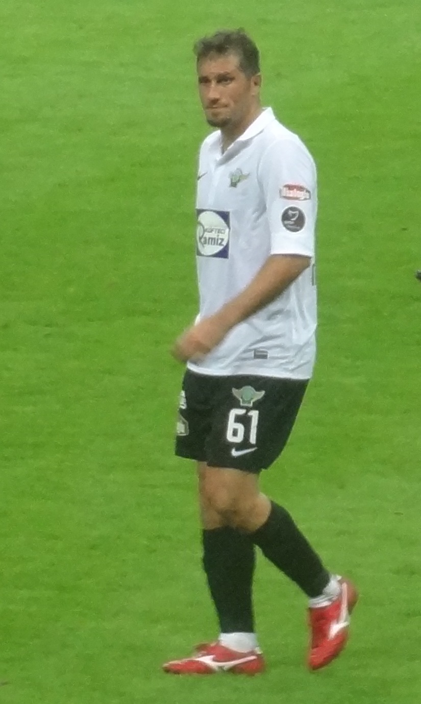 M.Yılmaz